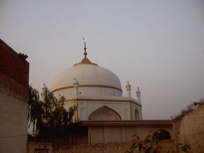 Mosque dome, in Ujra, Pakistan